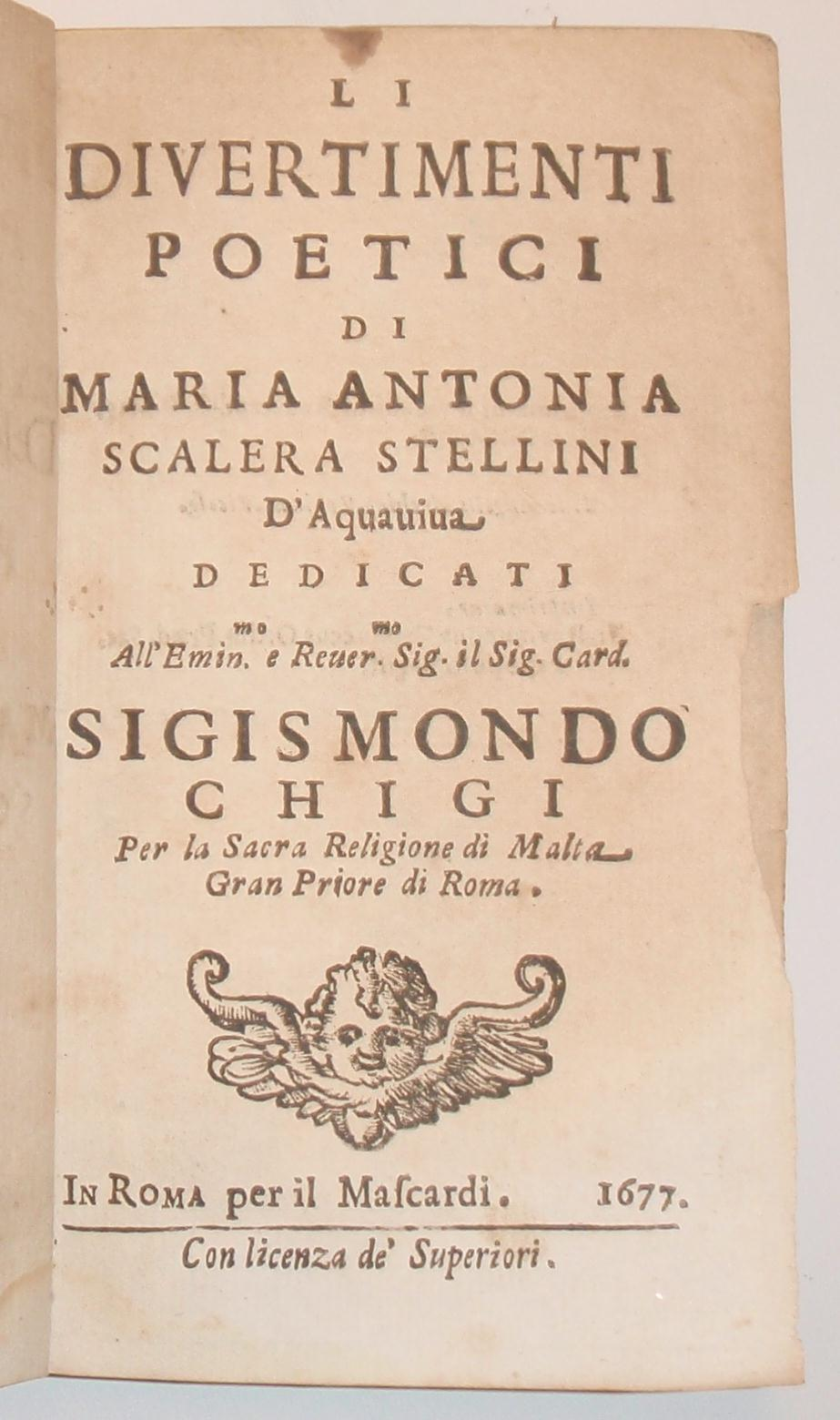 Titel page for Li divertimenti poetici by Maria Antoinia Scalera Stellini, first edition, printed in Rome, Italy, in 1677.